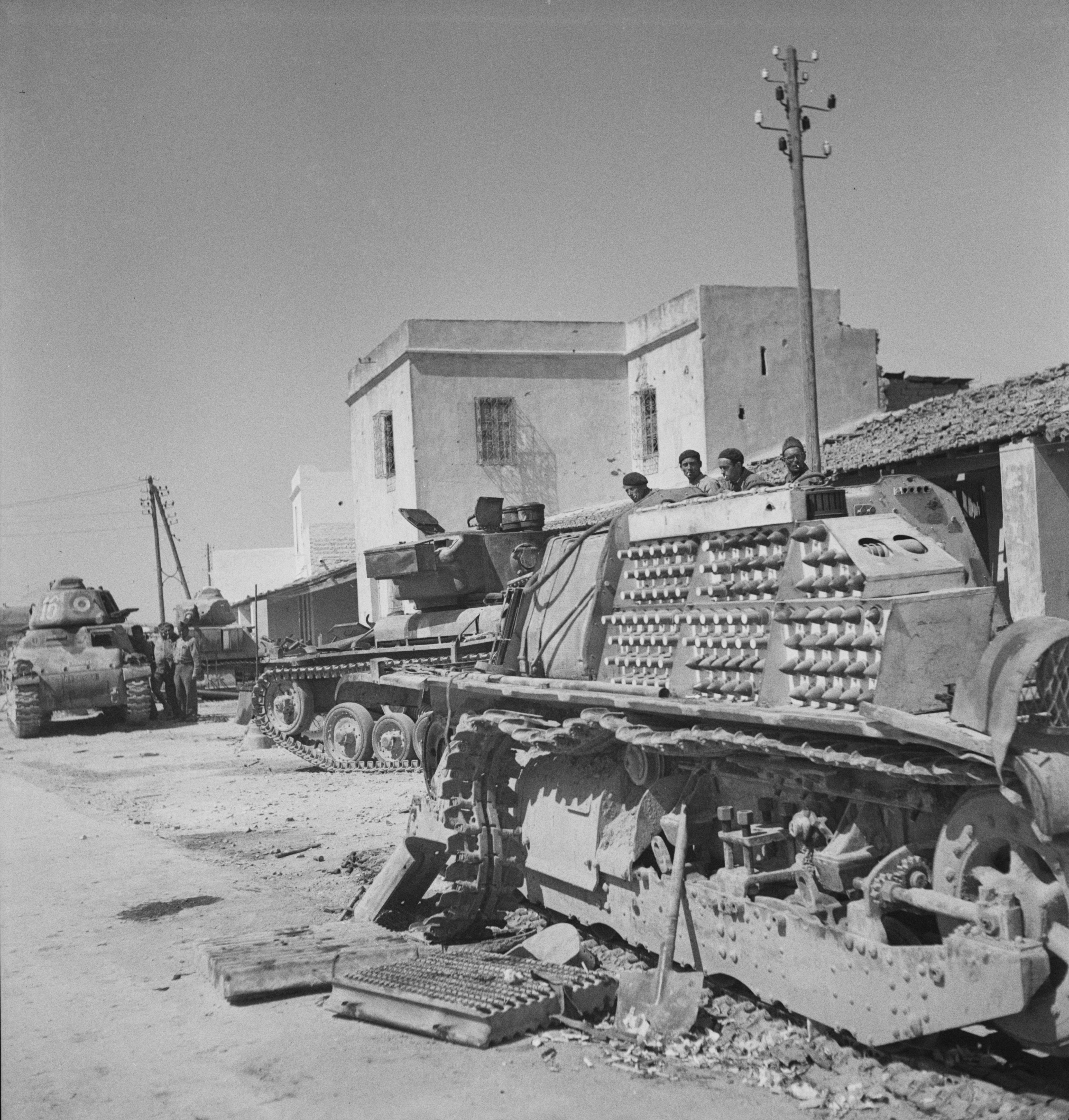 Tanks, perhaps wrecks, at Porto Farina, Tunisia, in May 1943. The identity of the tanks is unclear. Nearest to the camera is an dismantled SOMUA S35, with its hull armour and suspension armour removed, behind it a British Valentine Mk III tank. In the background are two French-made SOMUA S35s. SOMUA S35s were at the time used by the 19e Groupement Blindé Français, an allied unit, which contradicts the original caption. However, as every usable vehicle was commandeered by the (at that moment) victorious troops, it is unknown who operated these tanks. Original caption: "Allied soldiers inspect the wreckage of one of the tanks of the German Tenth and Fifteenth Panzer Divisions. Photo made at Porto Farina where the Nazis were trapped."